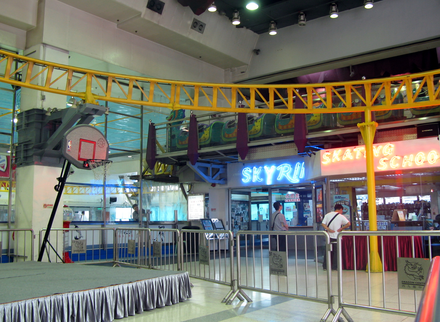 HK Sham Shui Po Dragon Centre Skyrink